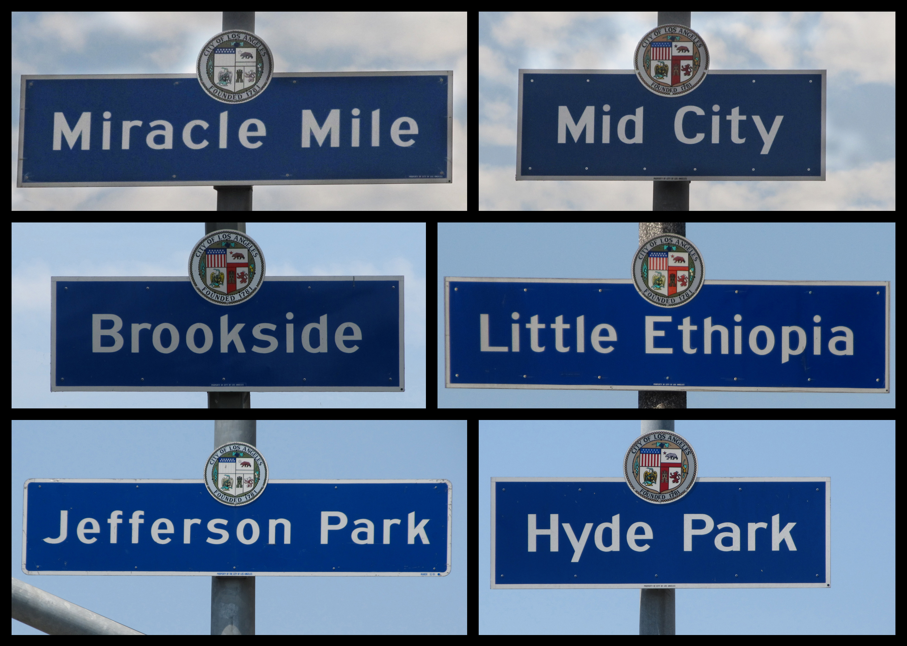 A collection of Los Angeles Neighborhood Signs